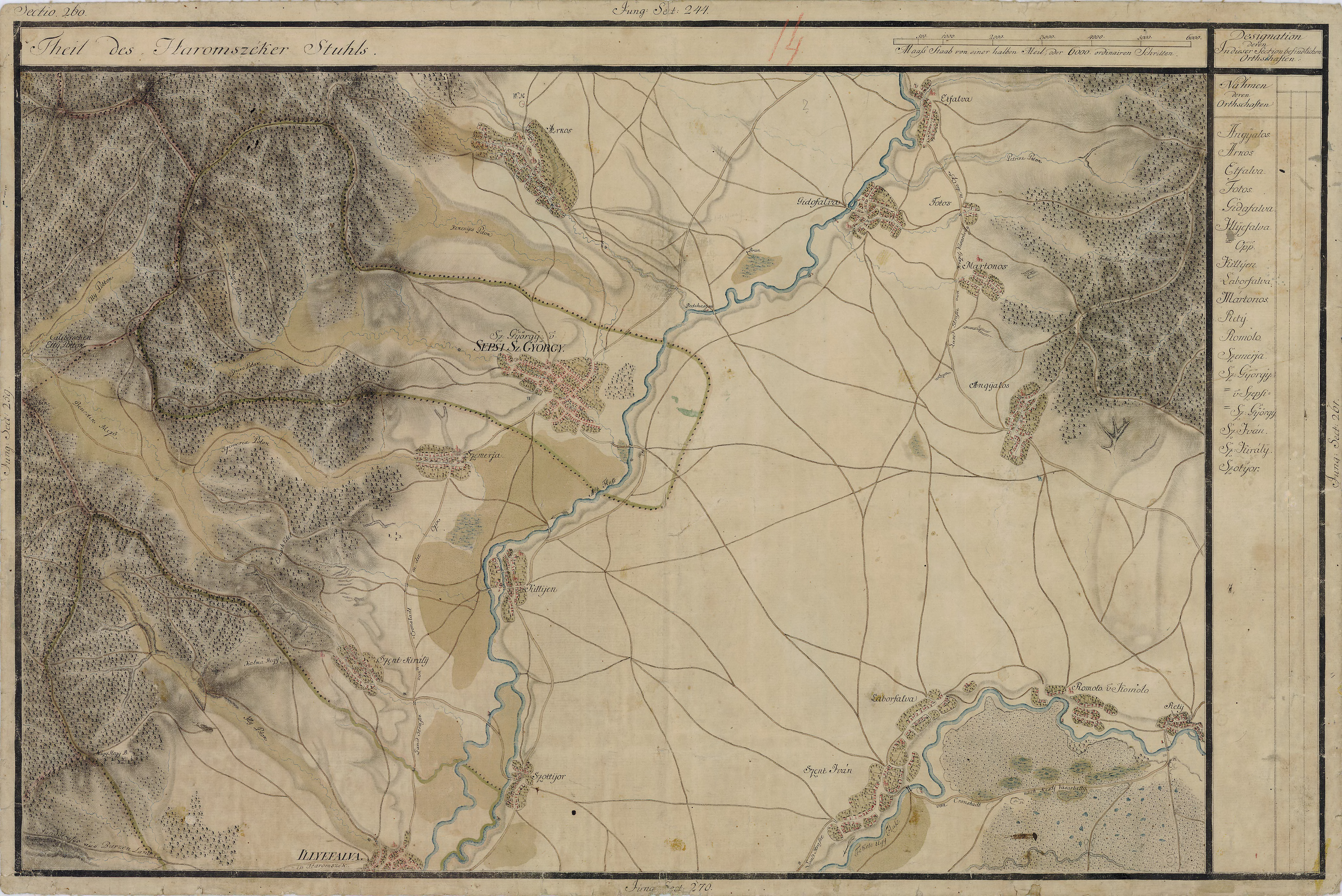 Grand Duchy of Transylvania, 1769-1773. Josephinische Landaufnahme pg.260